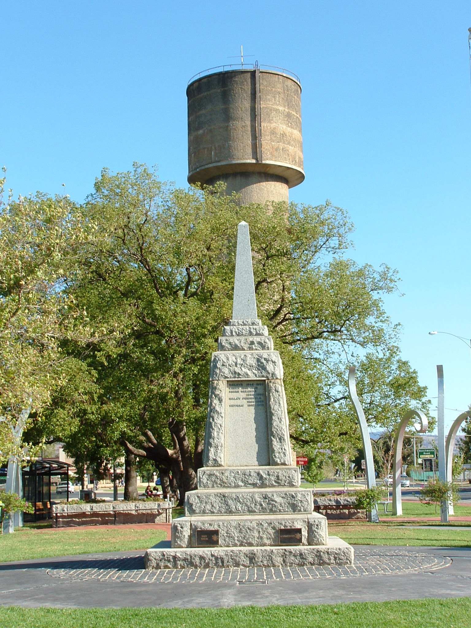 War Memorial and Water Tower, Woodland Grove, Wodonga, Victoria, Australia. Taken by Blarneytherinosaur.